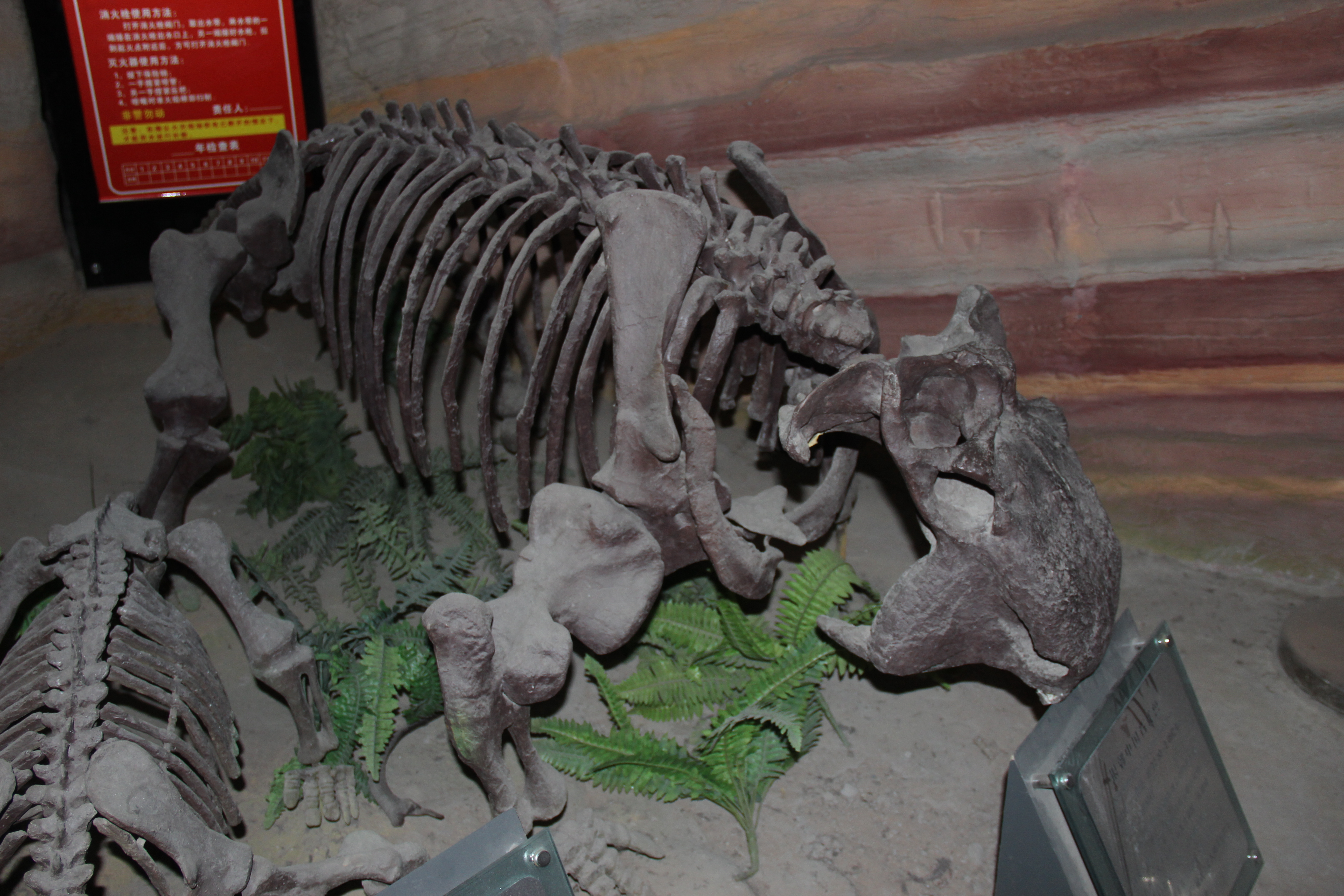 Mounted skeleton of Sinokannemeyeria